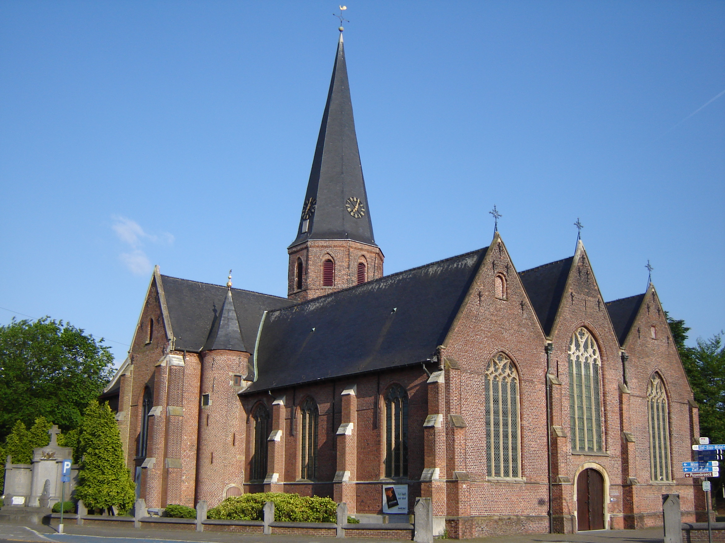 Church of Saint Catherine in Wachtebeke. Wachtebeke, East Flanders, Belgium